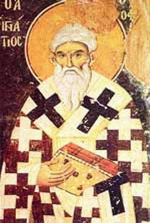 Ignatius of Antioch, ortodox icon.